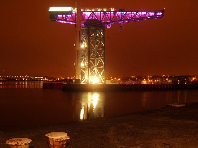 Clydebank's Titan Crane At night, from the grounds of the new Clydebank College.